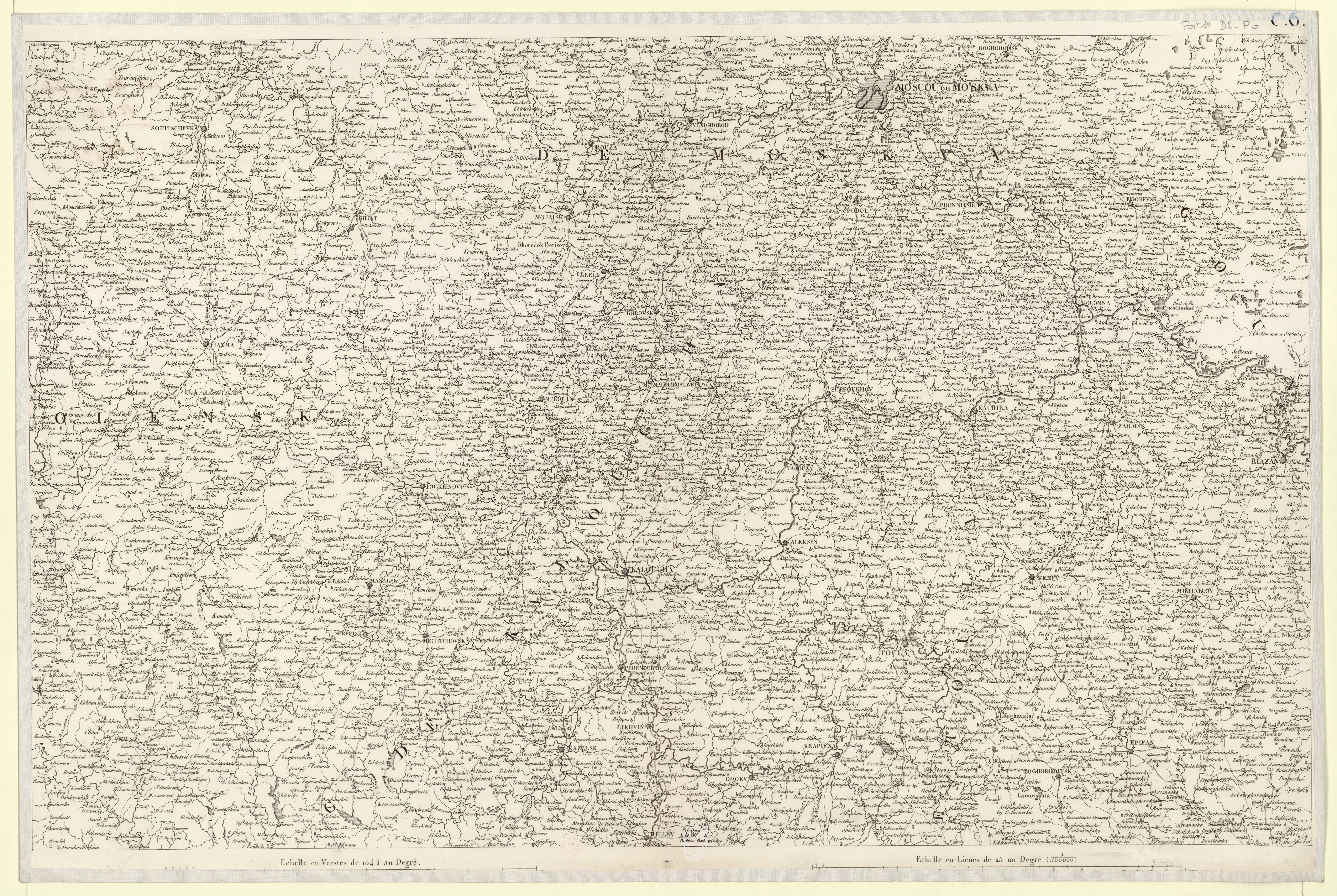 Map of European Russia (1812), list no. C6.